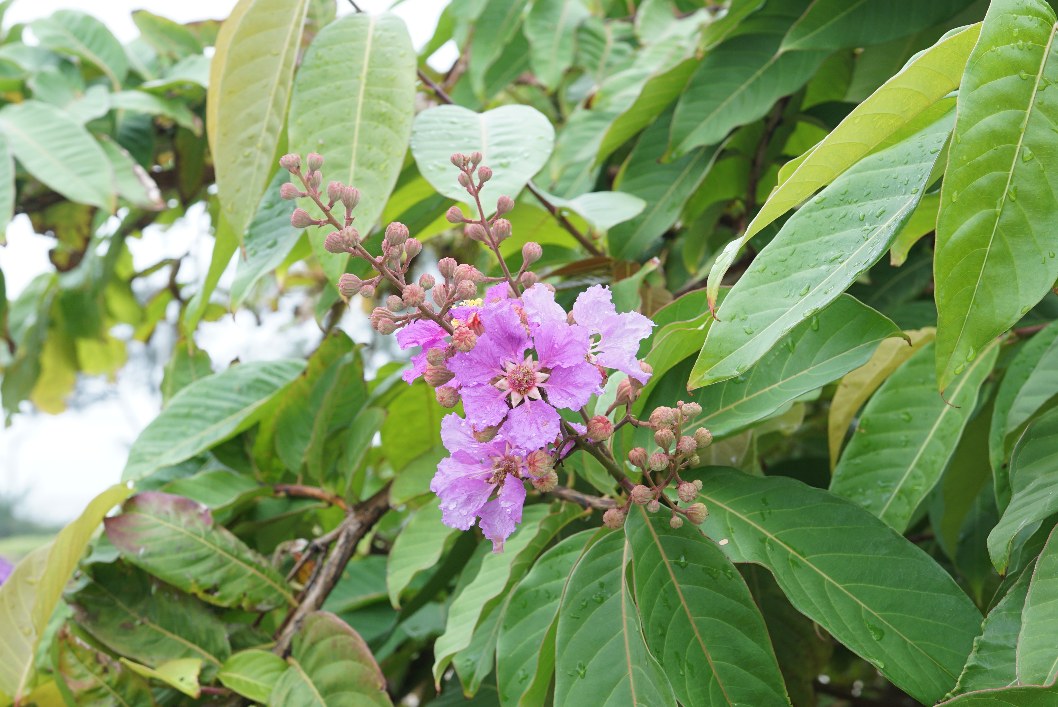 Lagerstroemia speciosa